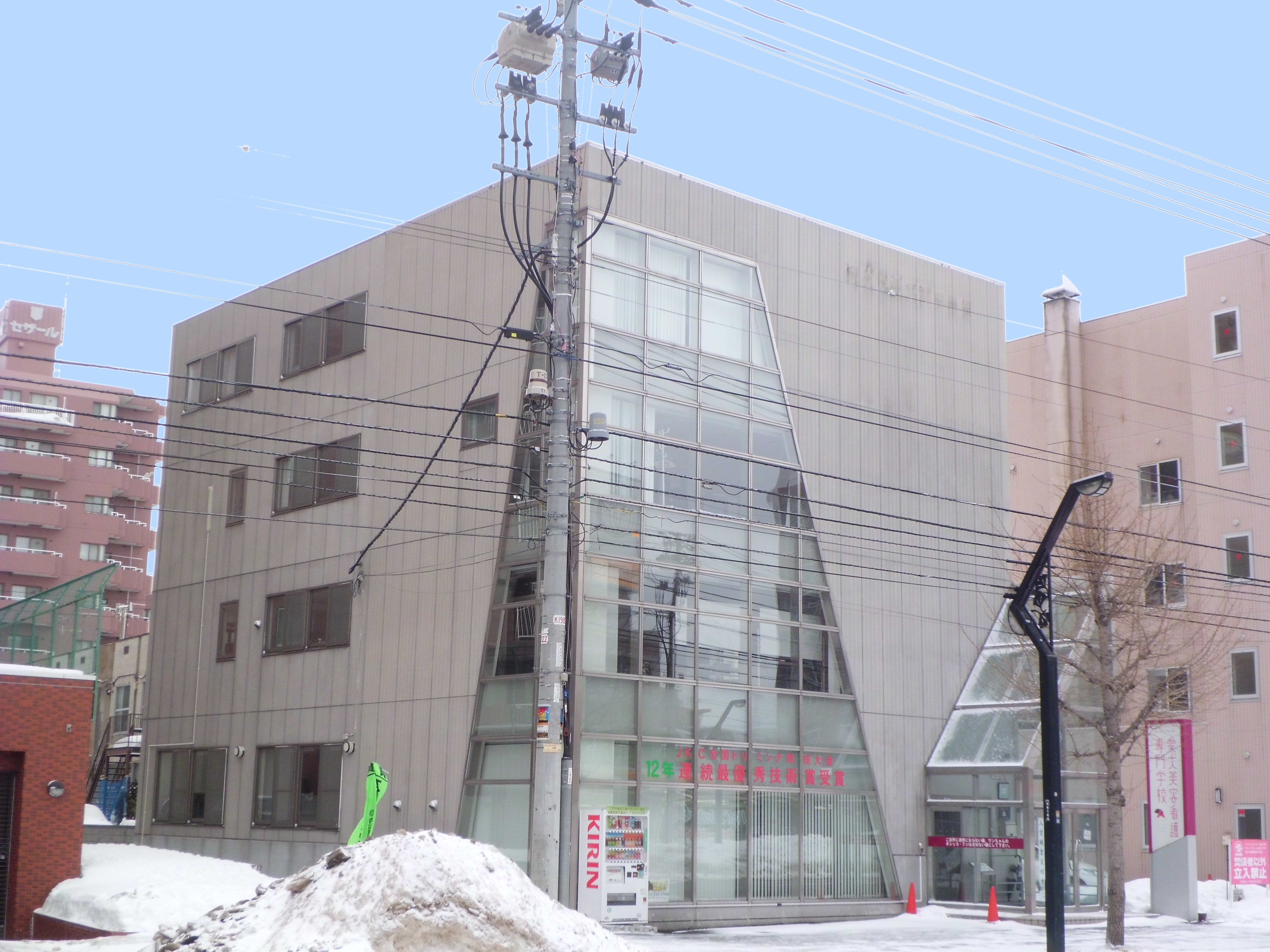 Aiken Biyo and Kango School (Dog Beauty School)